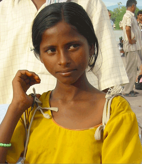 Inde Haridwar. A girl selling plastic containers for carrying Ganges water, Haridwar. Inde India people portrait young girl jeune fille child